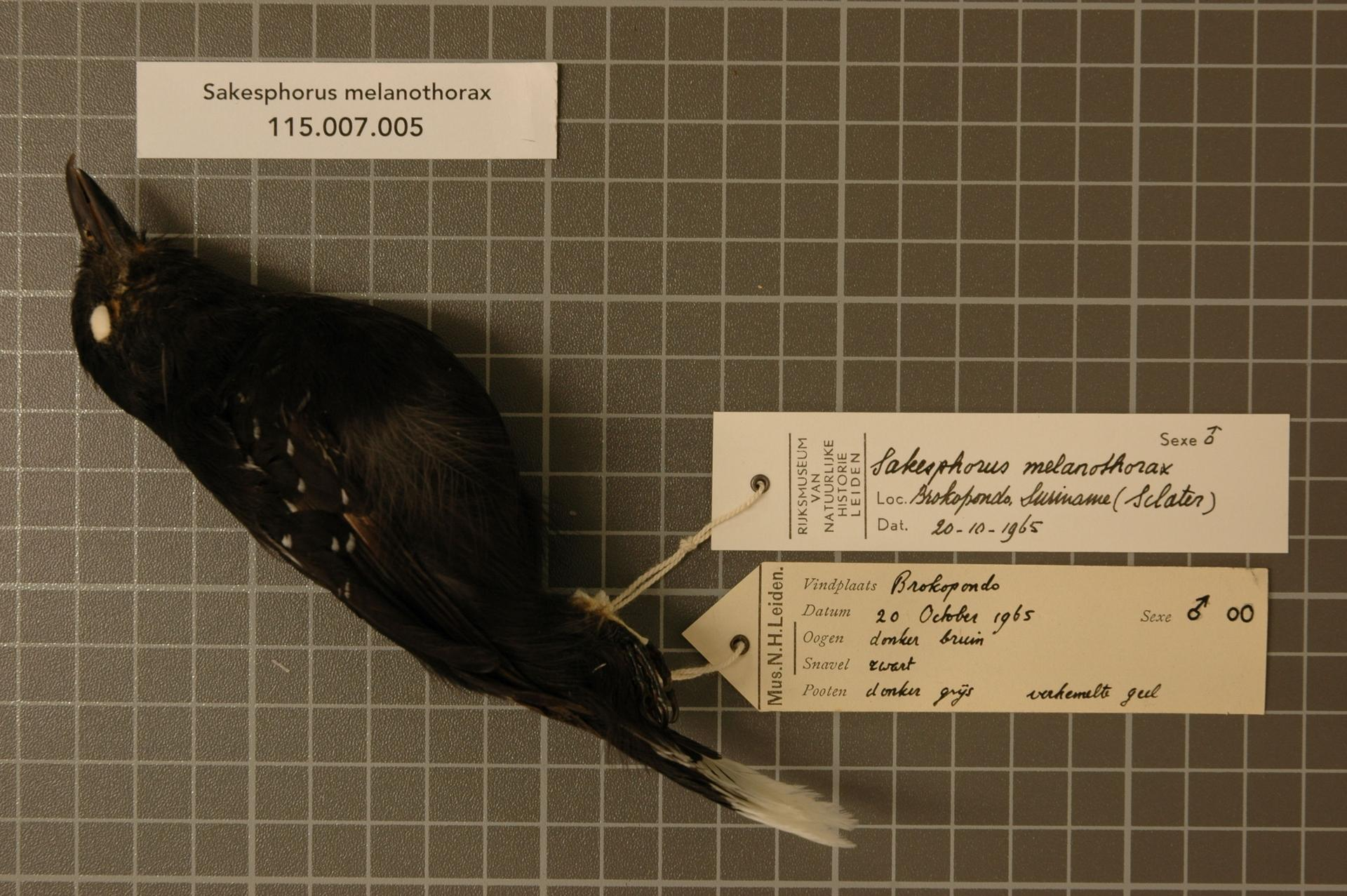 Sakesphorus melanothorax (Sclater, 1857)